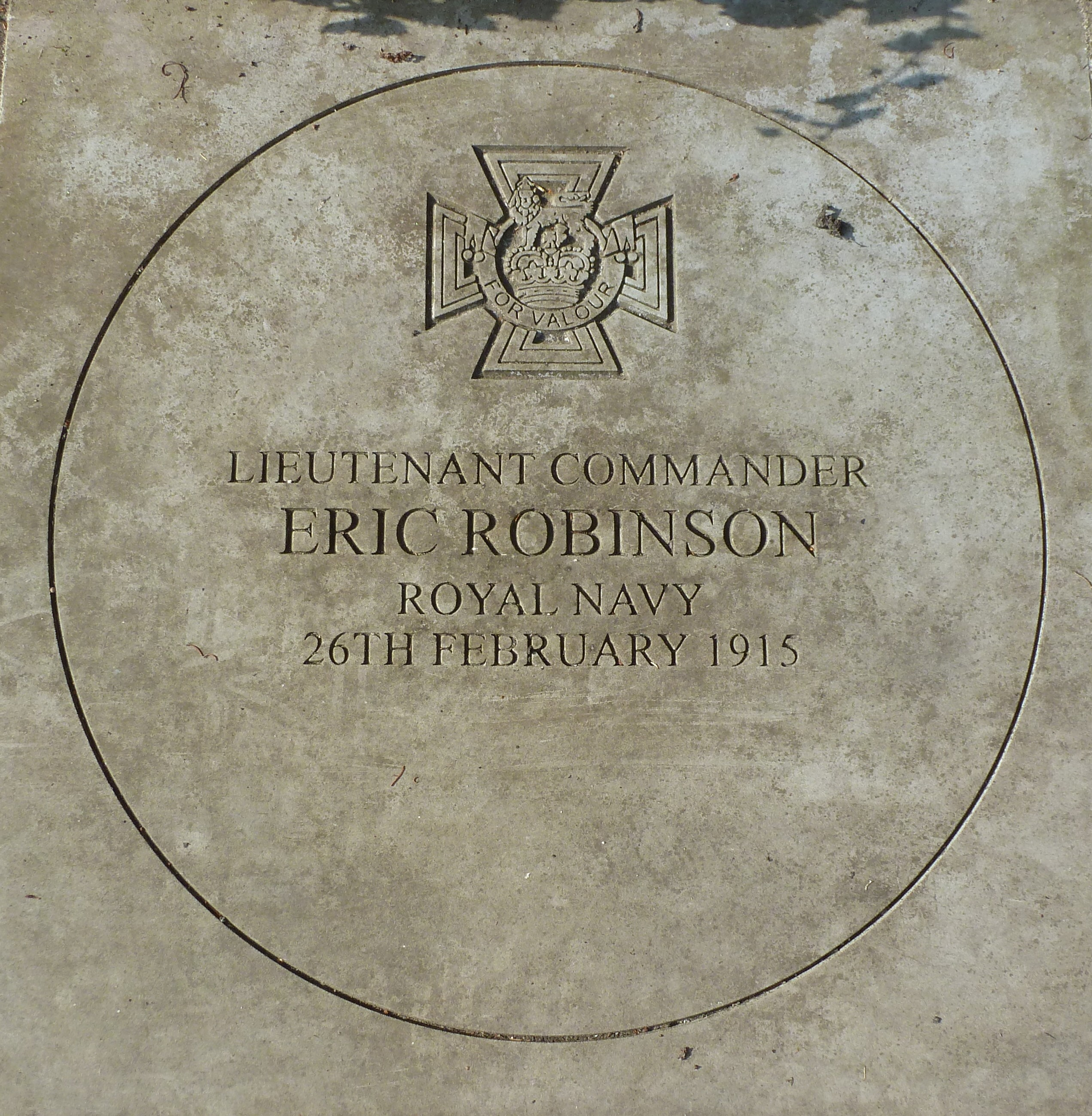 Pavement commemoration